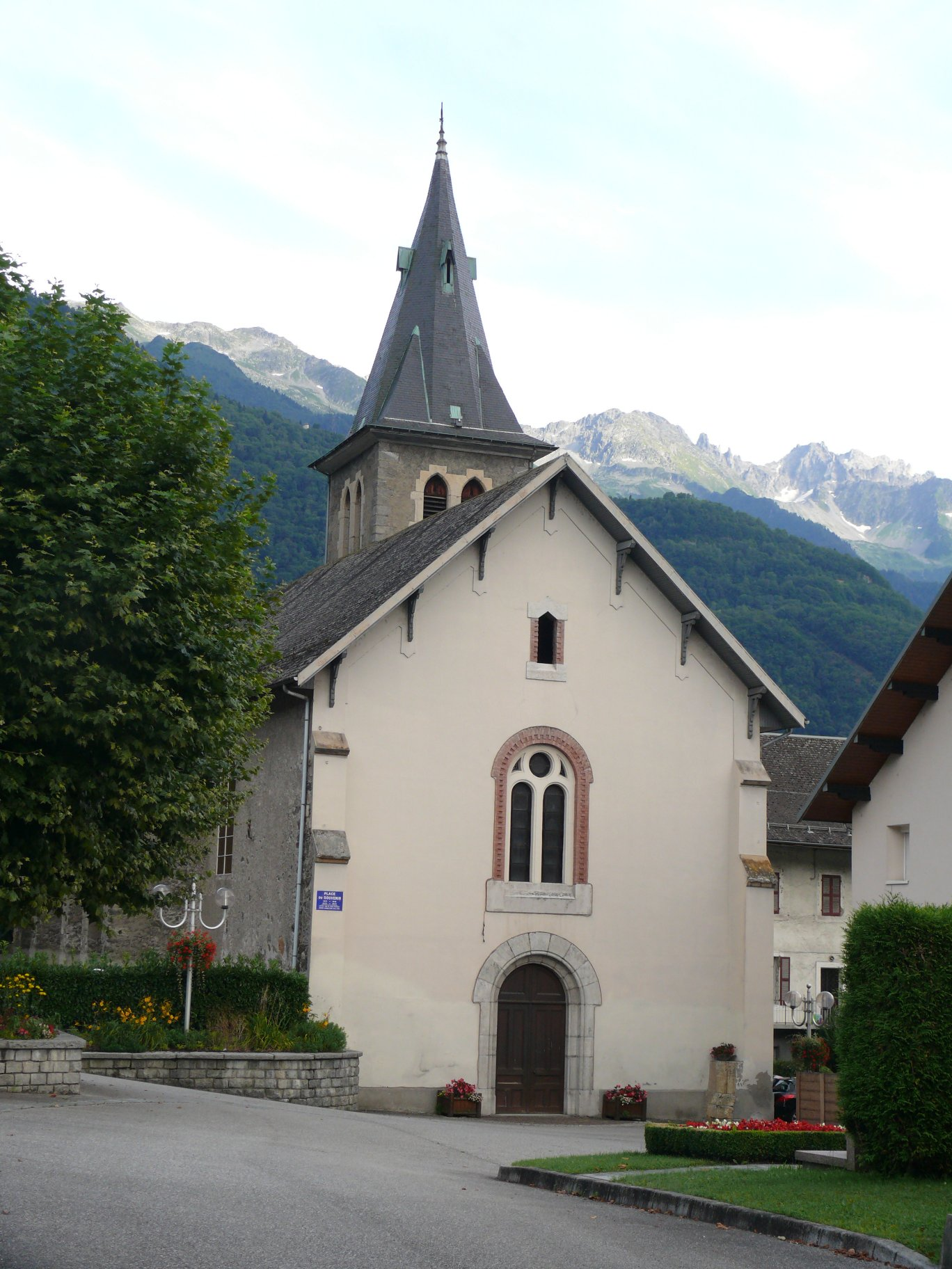 The church of the Assumption of Randens (Savoie, Rhône-Alpes, France).